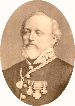 JC Hamakers